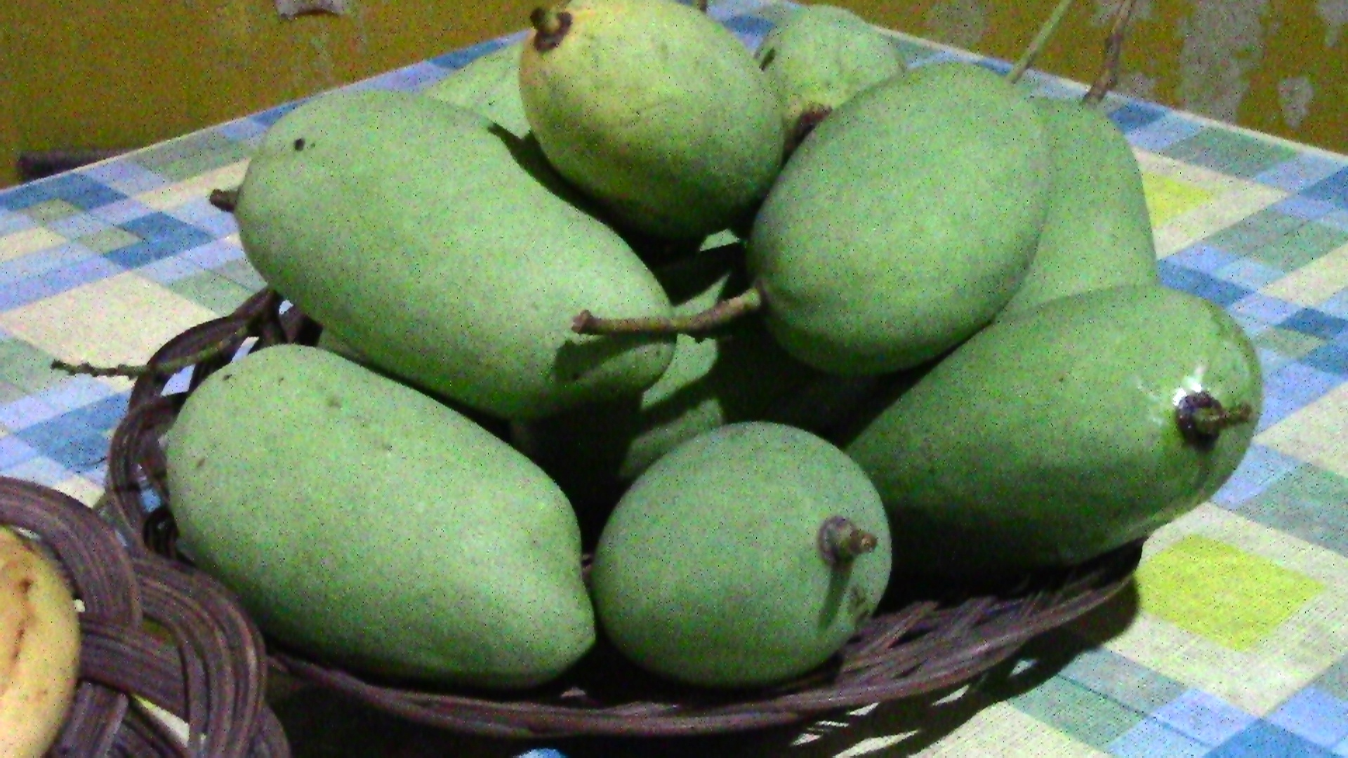 Unripe chok anan mangoes wait to ripen on table